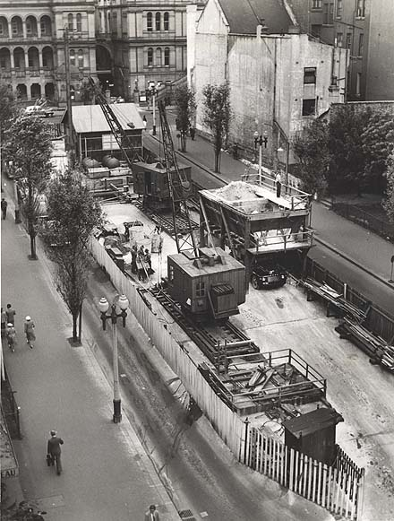 Martin Place Railway Station - looking towards Sydney Hospital - construction work underway Dated: 24/10/1951 Digital ID: 17420_a014_a0140001047r Rights: We'd love to hear from you if you use our photos. Many other photos in our collection are available to view and browse on our website using Photo Investigator.